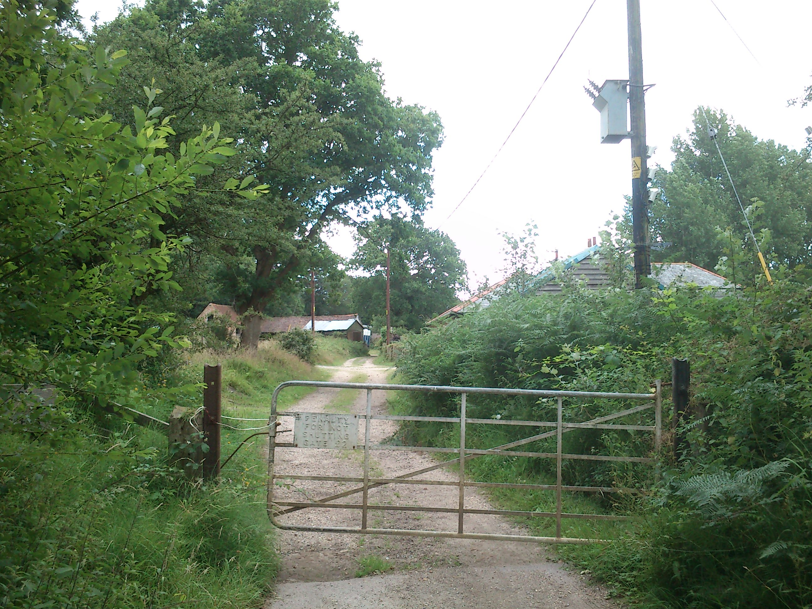 Lion's Hill Farm